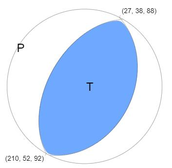 M 6.4 - 31km WSW of Tsuruoka, Japan - Moment Tensor